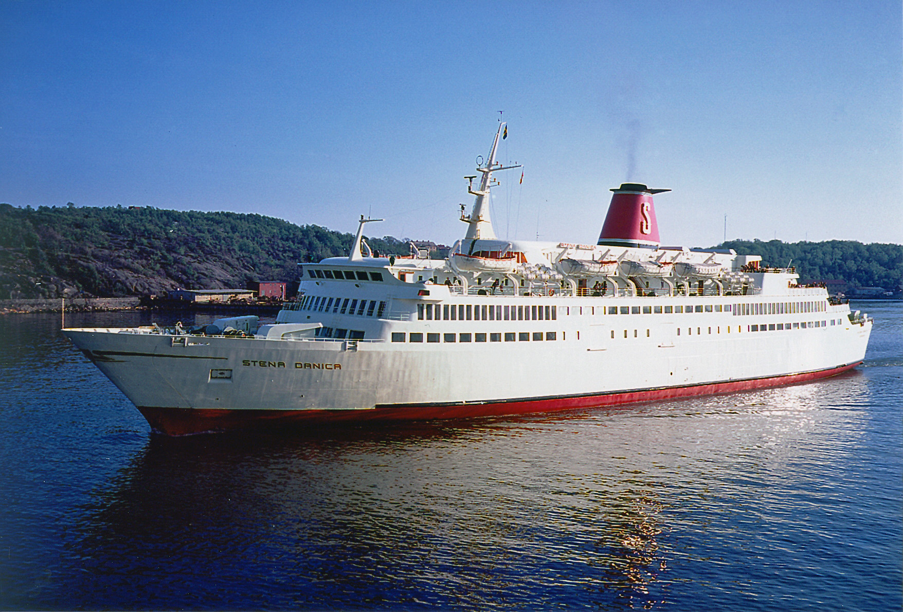 Cruiseferry MS Stena Danica II of Stena Line in 1969.